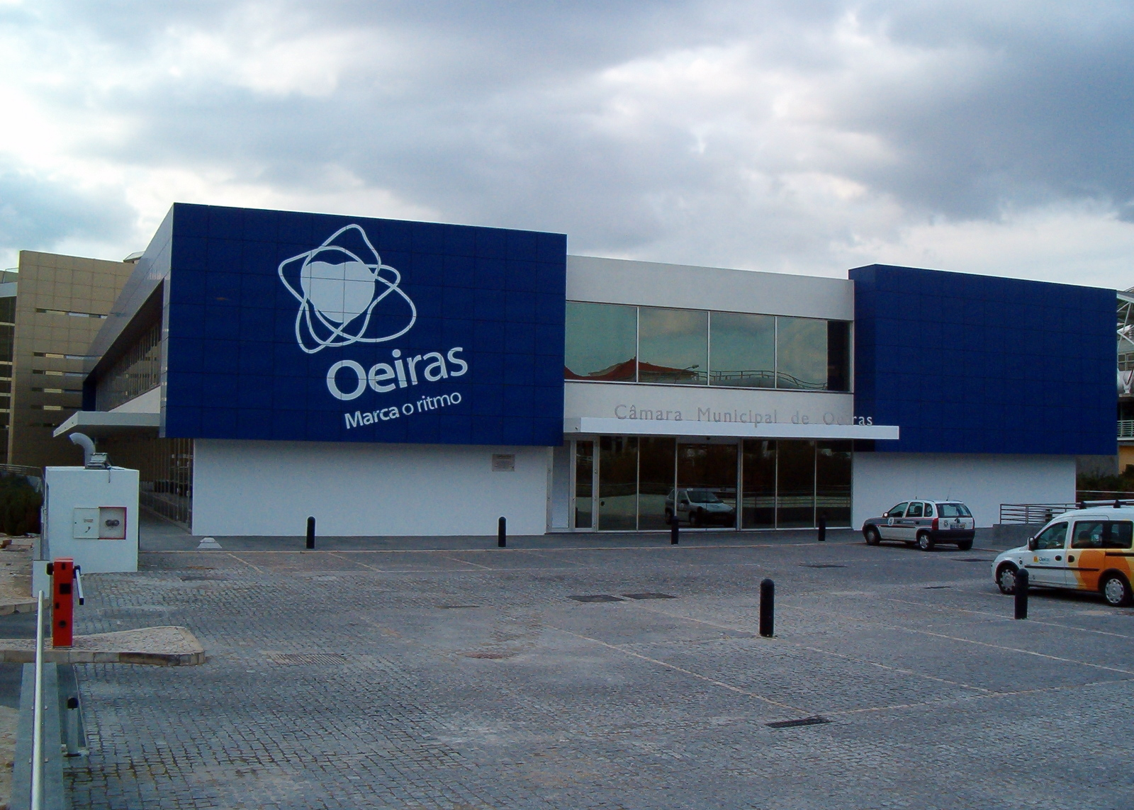 Oeiras_Camara_Municipal